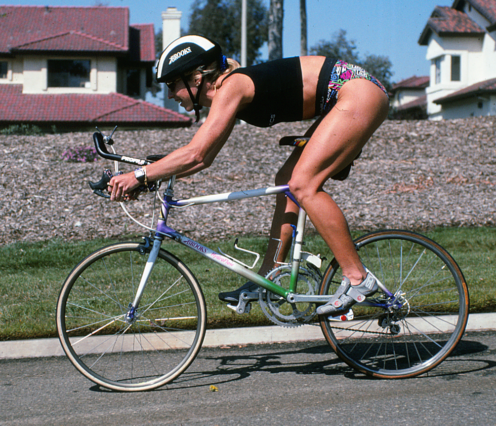 Paula Newby-Fraser Demonstrates Road Racing Techniques in "John Howard's Lessons in Cycling" Videotape 1991 - Photo by Patty Mooney